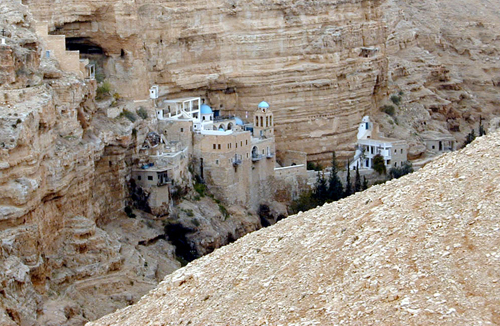 View of St. George's Monastery